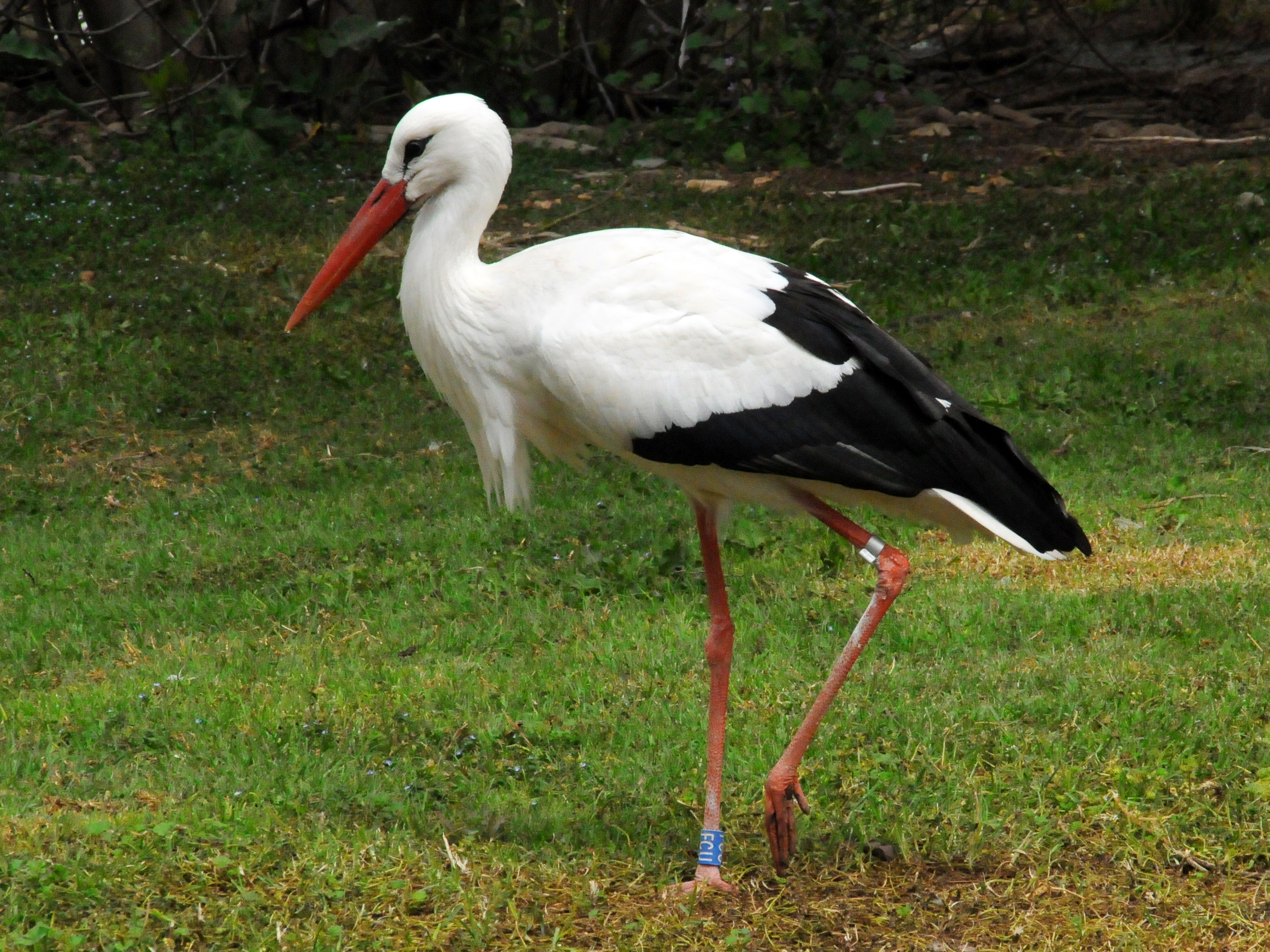 Geography of Israel